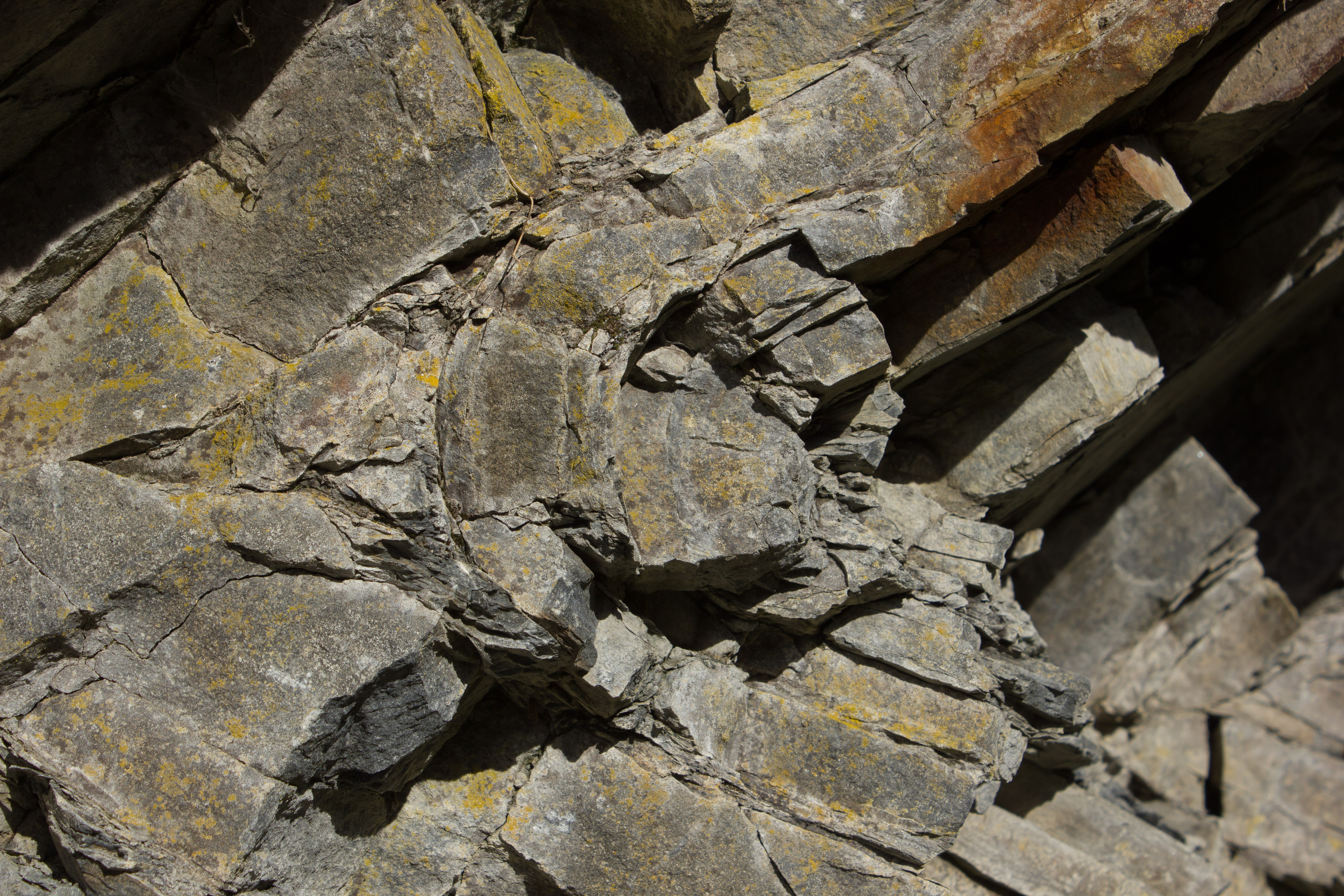 Natural Monument Erdfalte Schwarzenbach am Wald